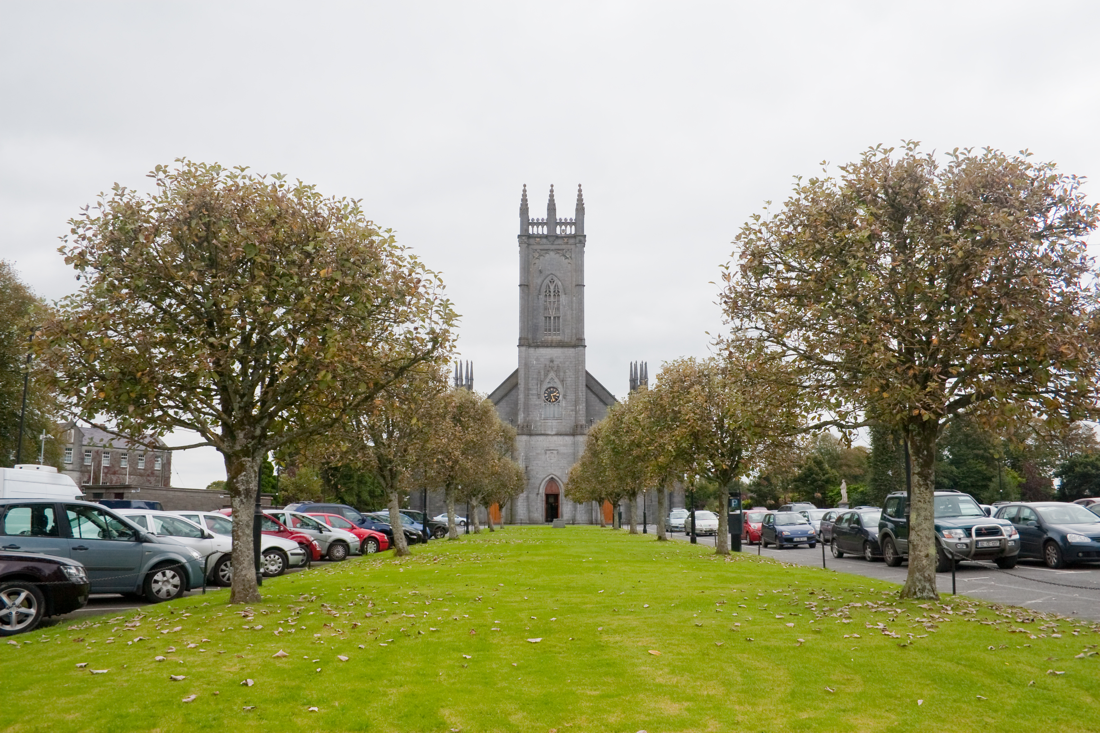 Tuam, County Galway, Ireland West front of the Cathedral of the Assumption.